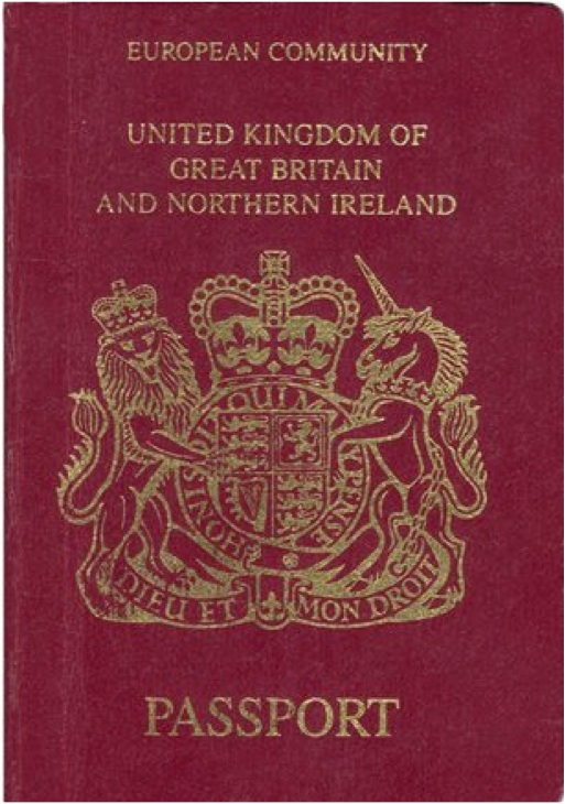 European Community common design passport of the United Kingdom